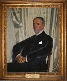 own